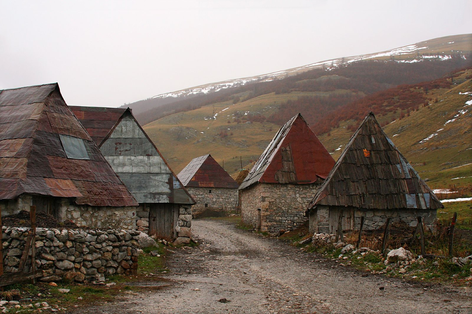 "The highland village of Lukomir is perhaps the finest example of the highland villages. It is the HIGHEST and MOST ISOLATED [emphasis mine] permanent settlement in the country at 1,469 m (4,500 ft.). The traditional architecture of the village has been deemed by the Historical Architecture Society of the United Kingdom as one of the last remaining functional villages in all of Europe. The stone homes with cherrywood roof shingles mark a practice that can no longer be found on Bjela?nica." ~Bradt Tour Guide~